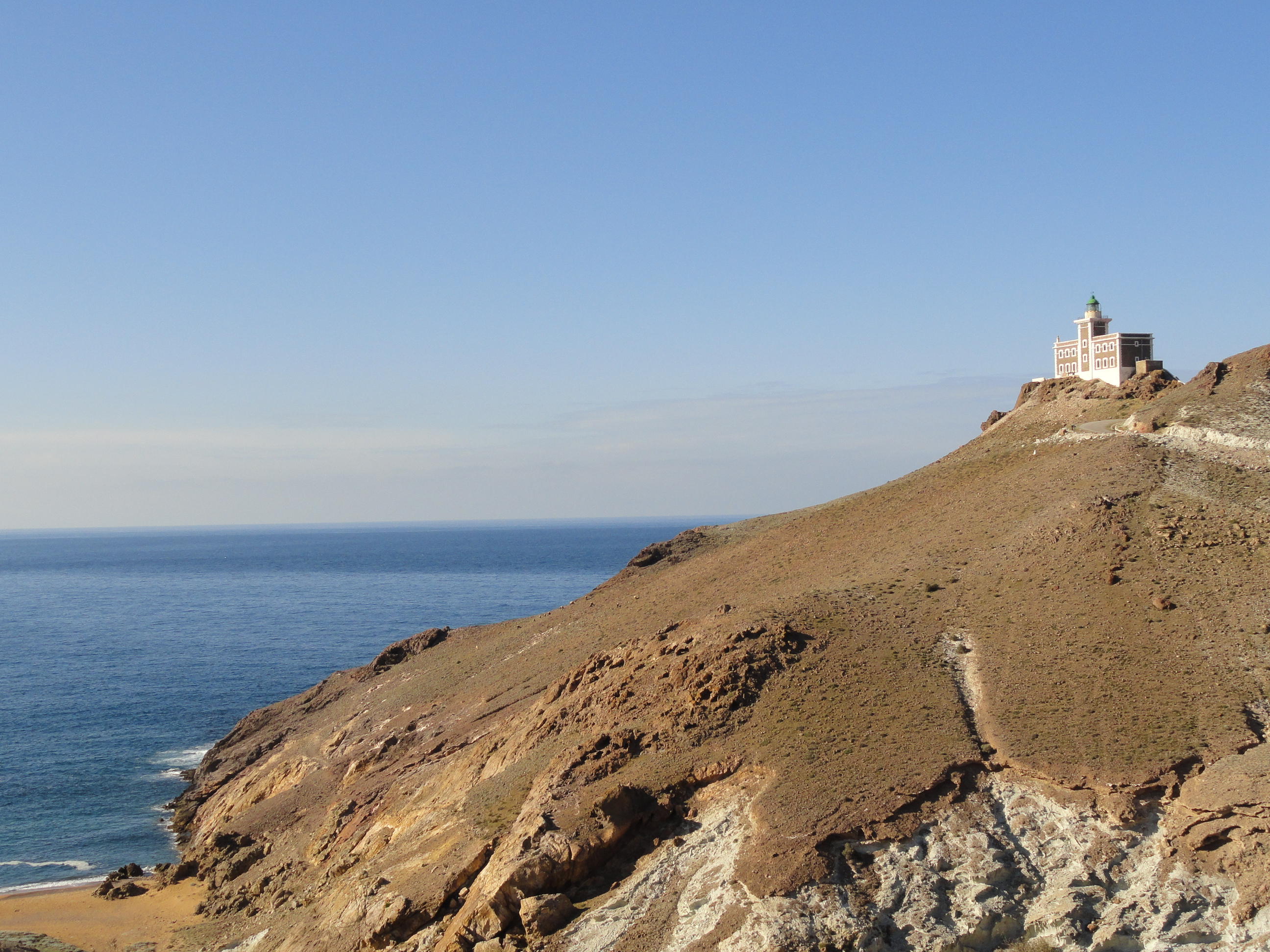 Land erosion restoration in Cap des Trois Fourches (Morocco) within ABIPA C3F project